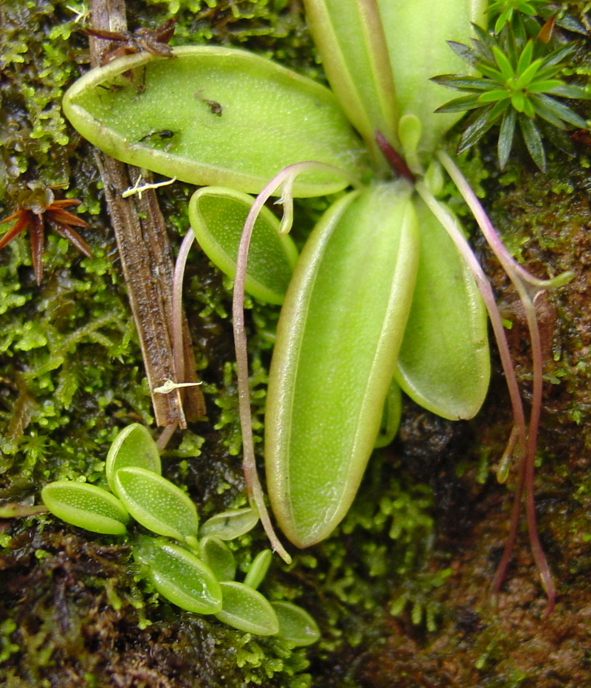 Pinguicula orchidioides, showing stolons and plantlets. Oaxaca, Mexico.